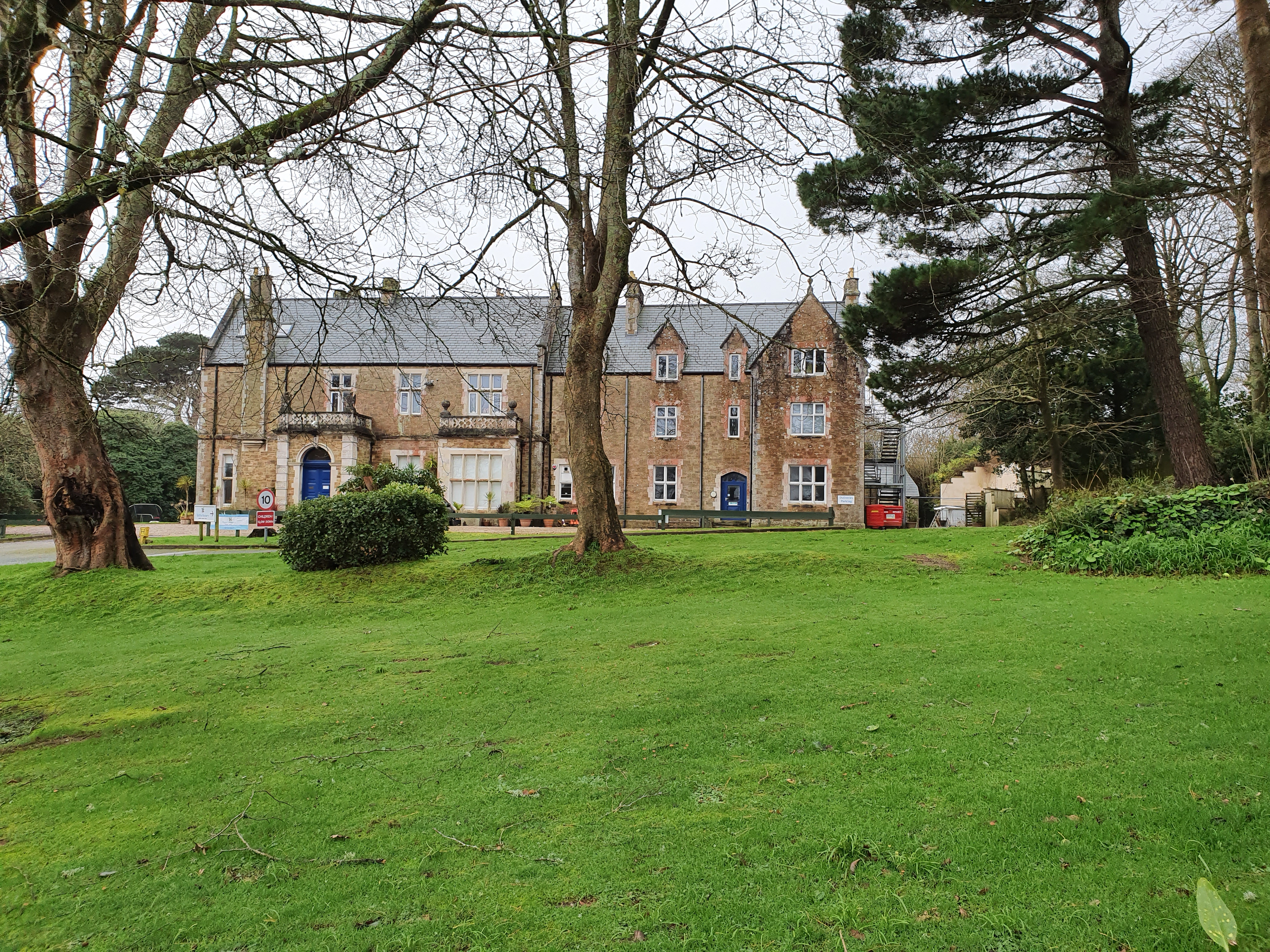 Polwithen House in 2019. Formerly Bolitho School; formerly School of St Clare; formerly Riviere Hotel; originally known as Polwithen House.